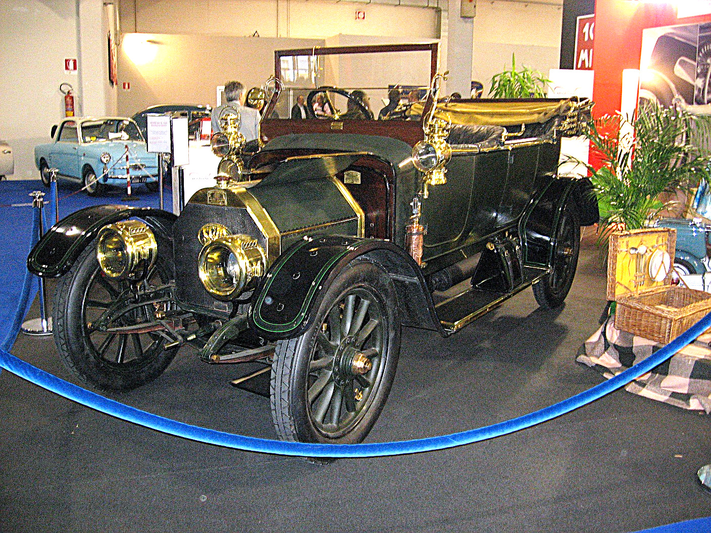 Subject: Scat 15/20HP (1908-13) Date:October 26th, 2008 Event: Auto e Moto d'Epoca 2008 Place/Country: Padova, Italy I release all rights in the public domain.